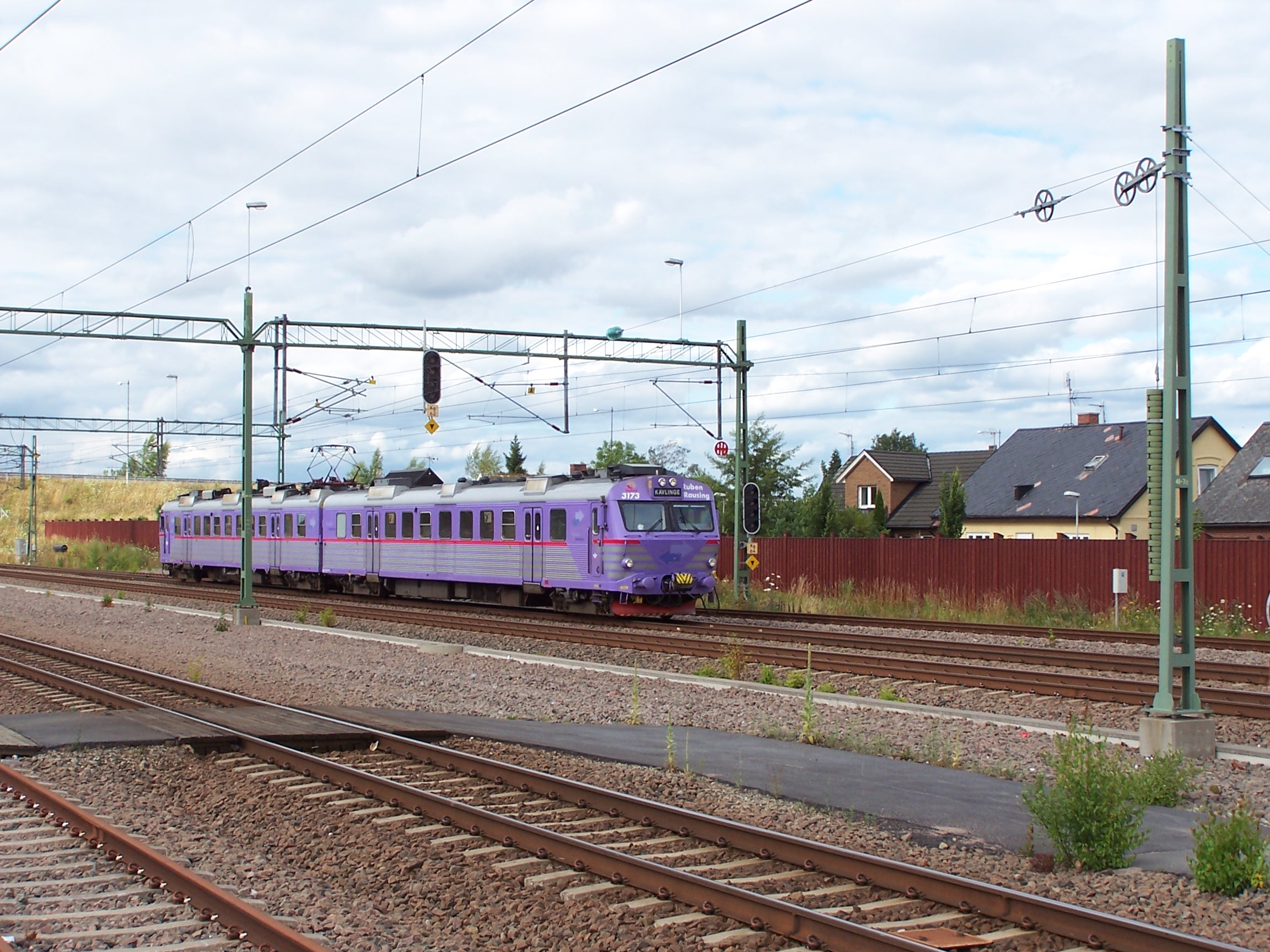 Pågatåg arriving to Kävlinge railway station.